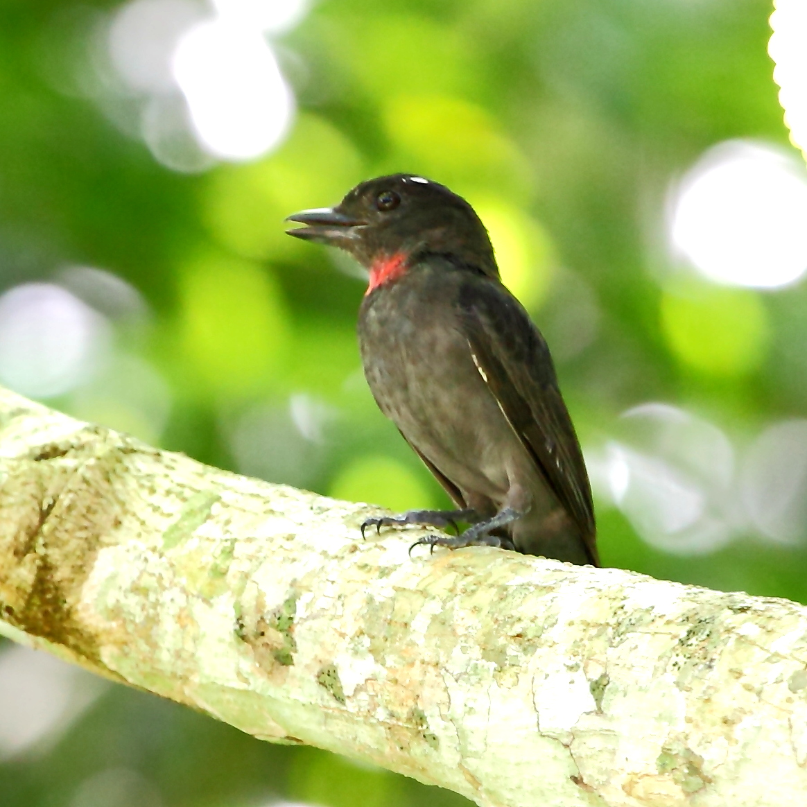 Pink-throated Becard at Apiacás - MT - Brazil